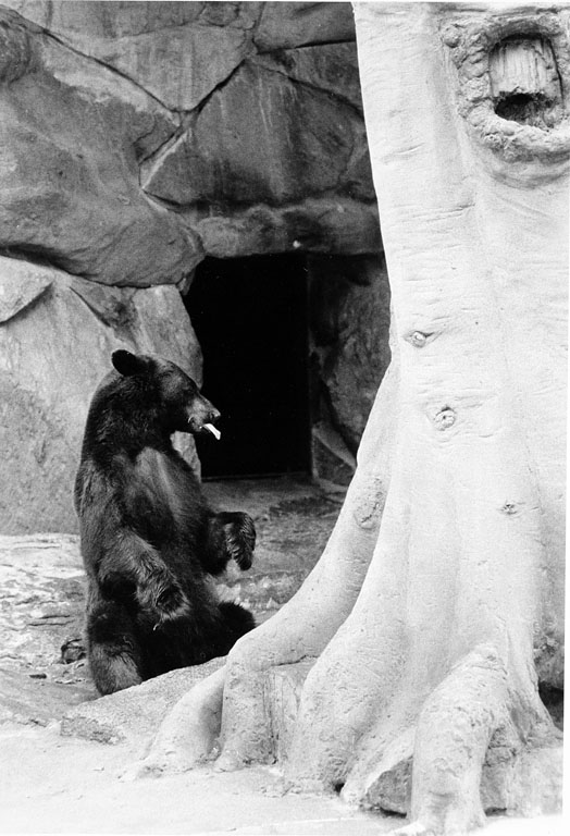 Smokey Bear enjoying the honey and berries that are dispensed from his new automated dispensing tree, National Zoological Park staffers from the offices of Graphics and Exhibits and Facilities Management put together the "honey tree" in Smokey's exhibit area in the summer of 1984, by Jessie Cohen, Photographic print, Smithsonian Institution Archives, Record Unit 371 Box 4 Folder November 1984, Negative Number: 95-1209.